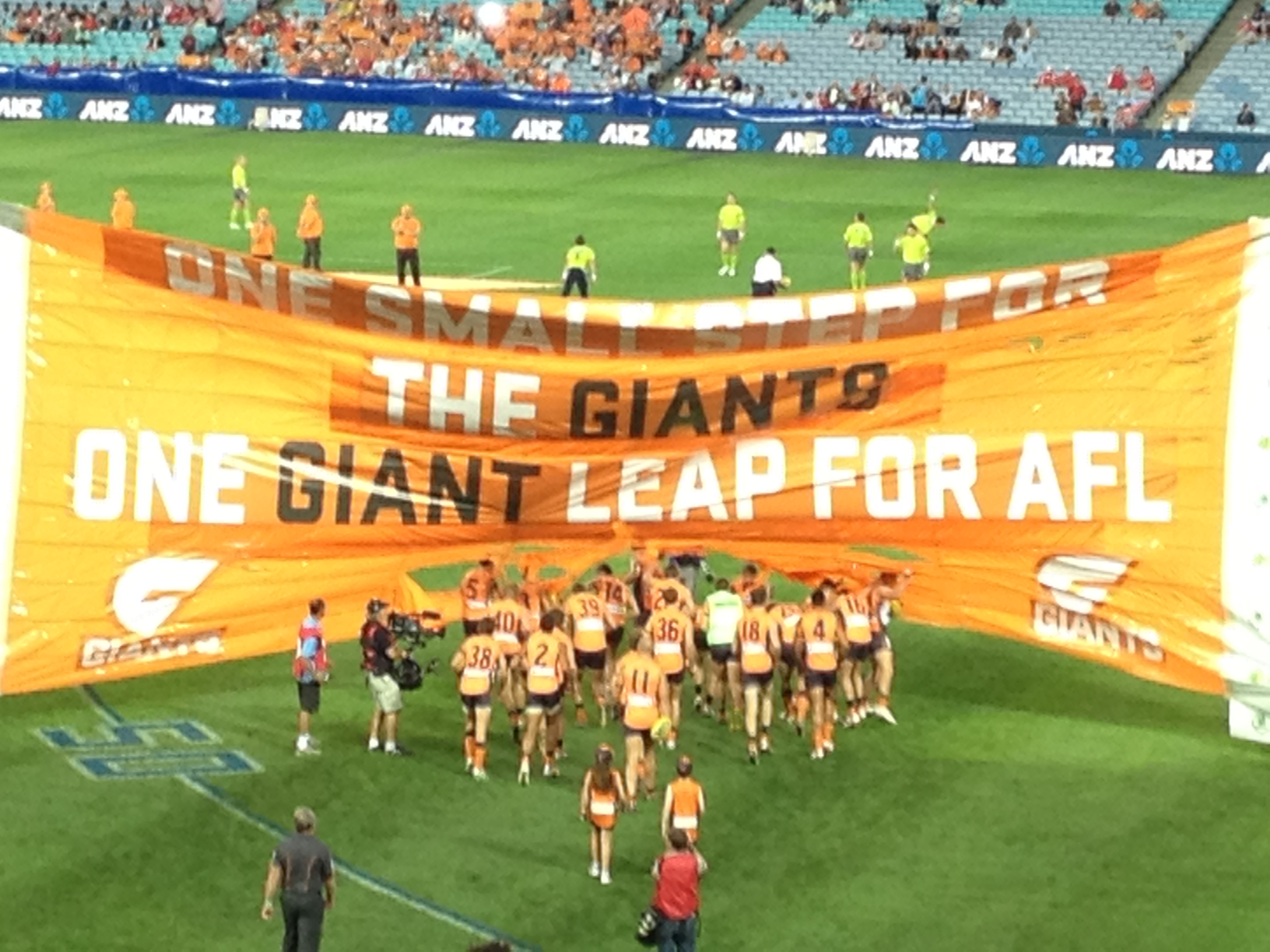 Photo of the first GWS Banner